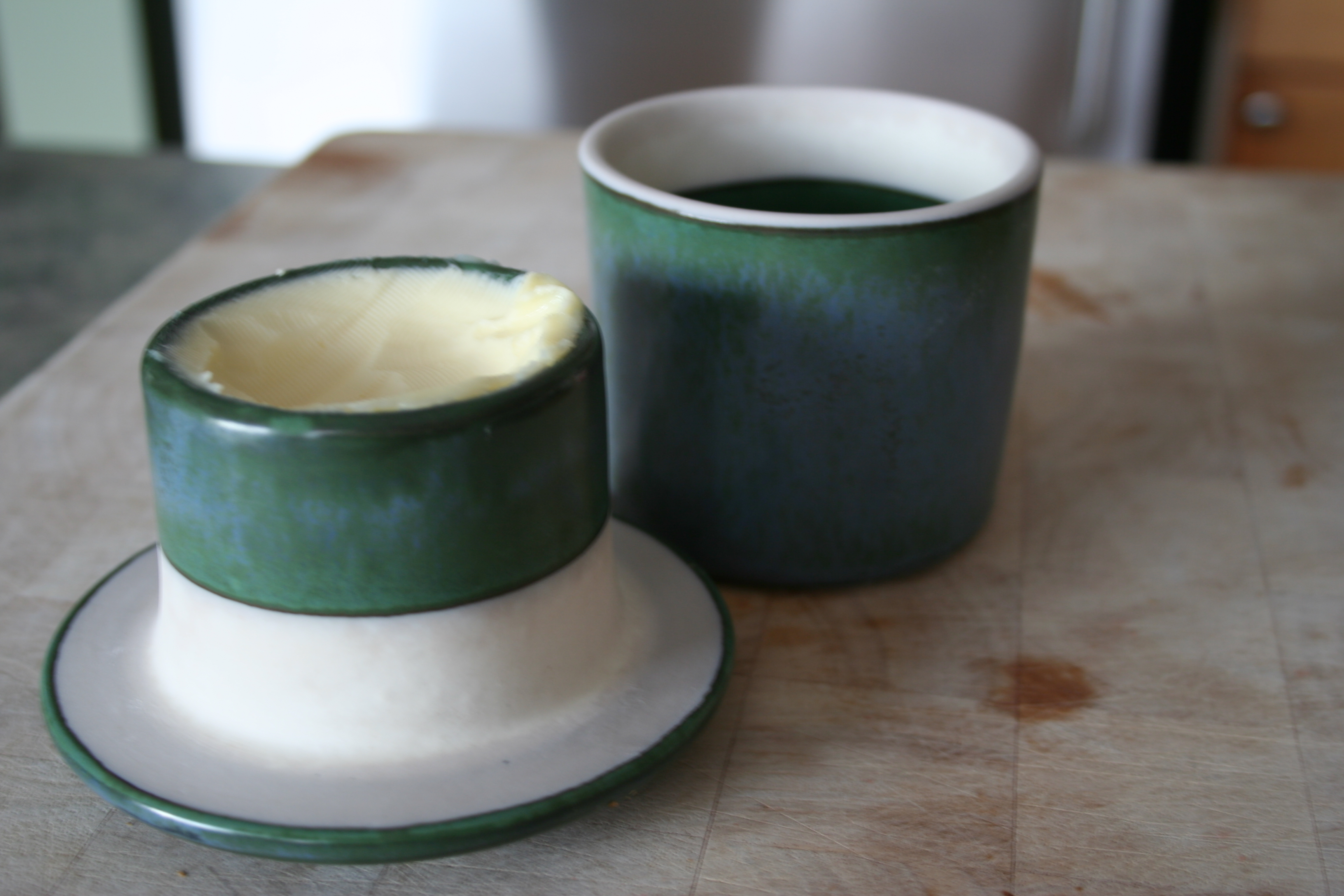 Green and white French Pottery Butter Dish (open). Pottery/crockery used to store butter at room temperature.